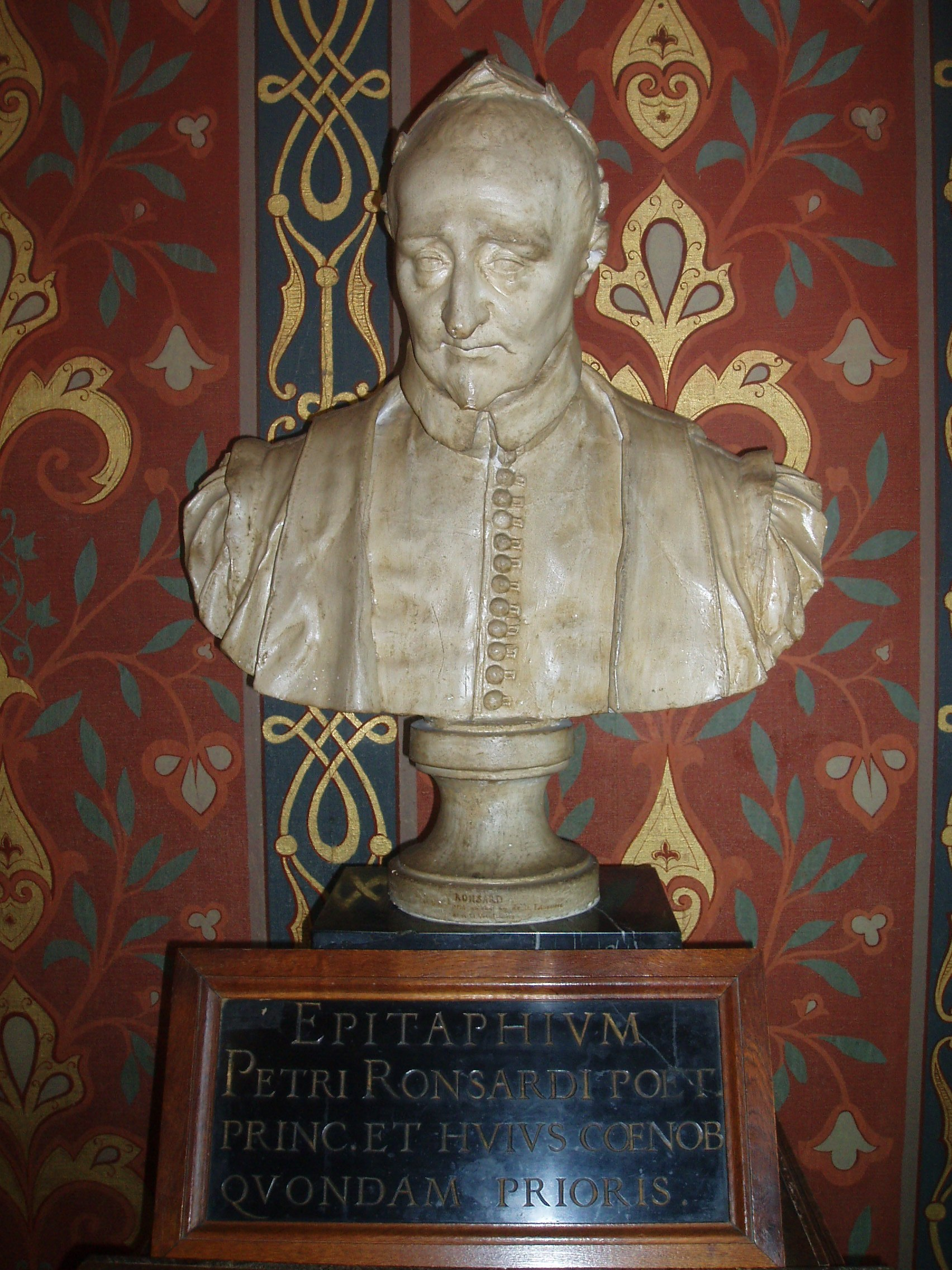 Bust and inscription of Pierre de Ronsard at the Chateau de Blois, Blois, France.